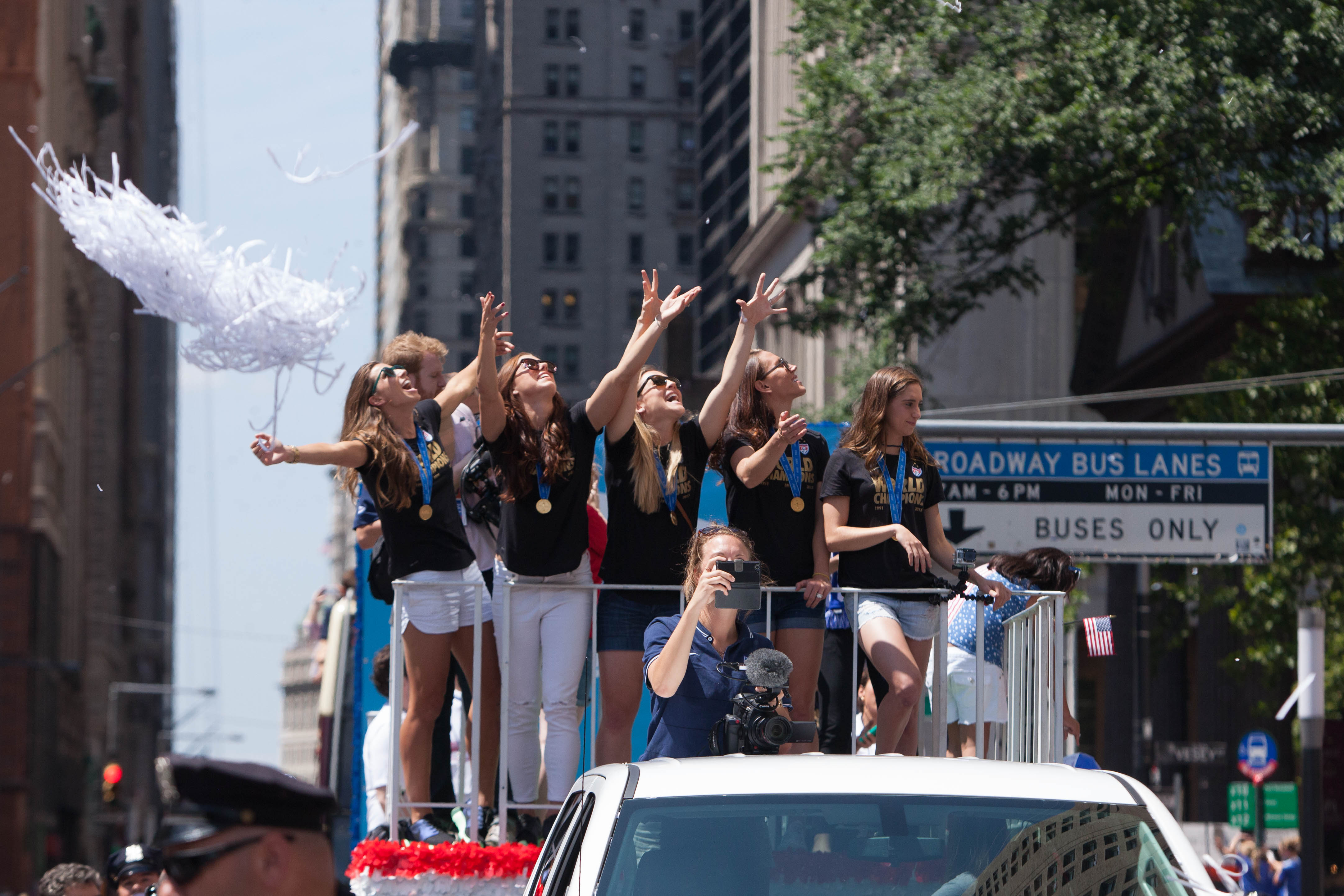 The United States Women's Soccer Team Ticker-Tape Parade New York City